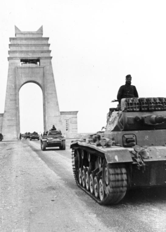 Panzer Mk IIIs and Mk IIs cross under the marble arch at Sirte as they reinforce the Italians in the western desert.